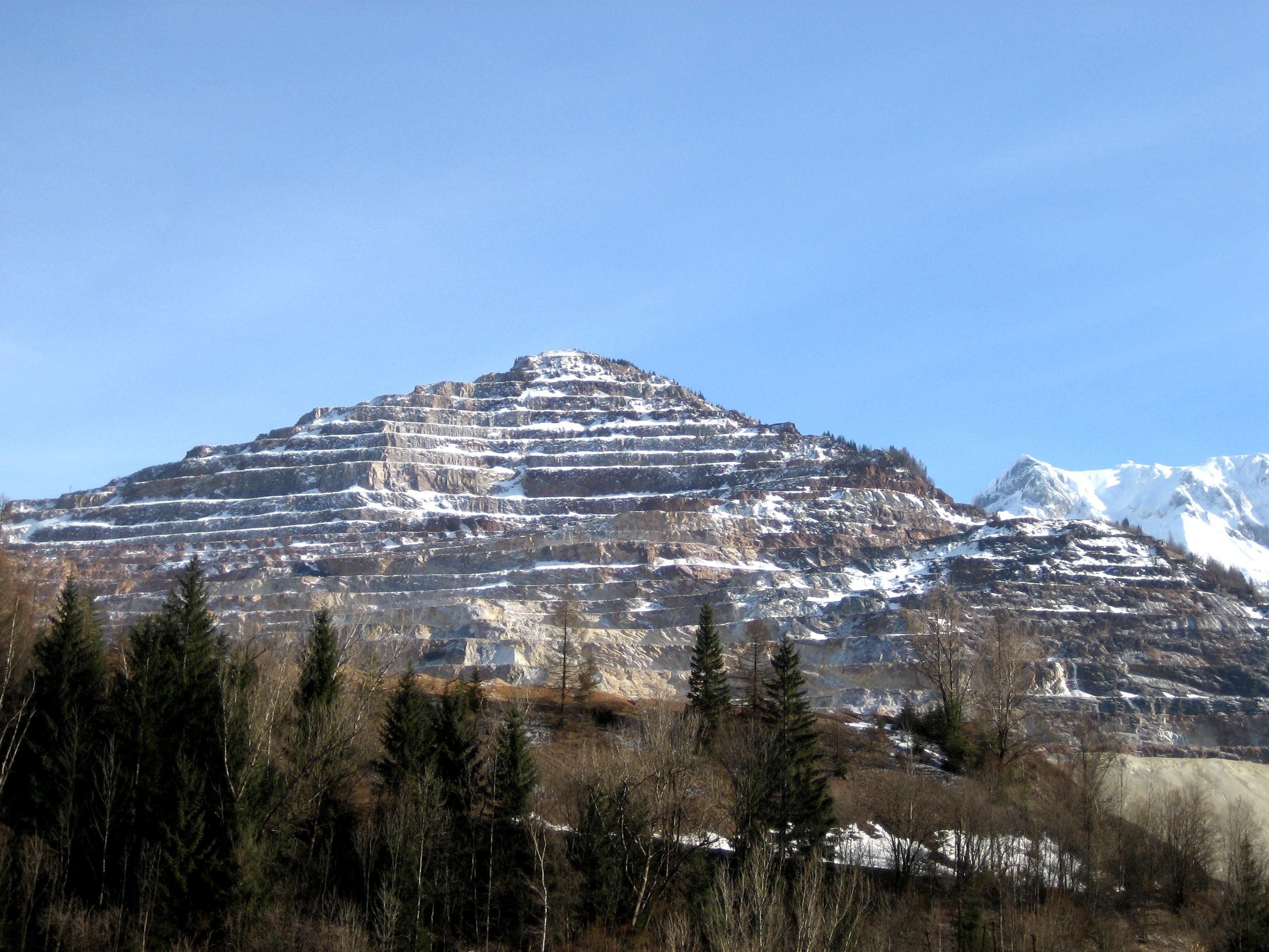 Eisenerz, a city in Styria, Austria, Europe: Erzberg